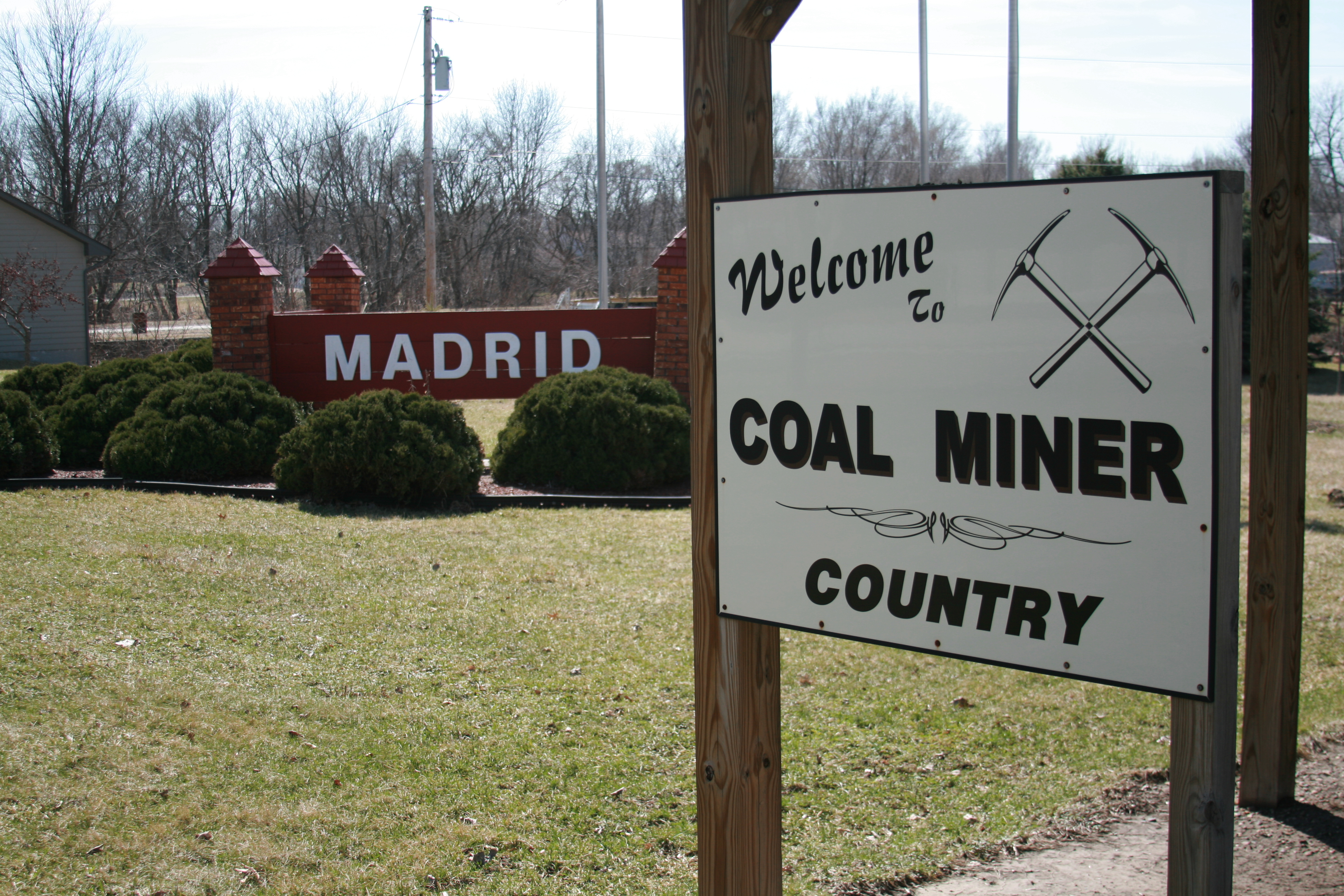 Foreground: Sign for the Coal Miner Display in Madrid, Iowa Background: Welcome sign for the city